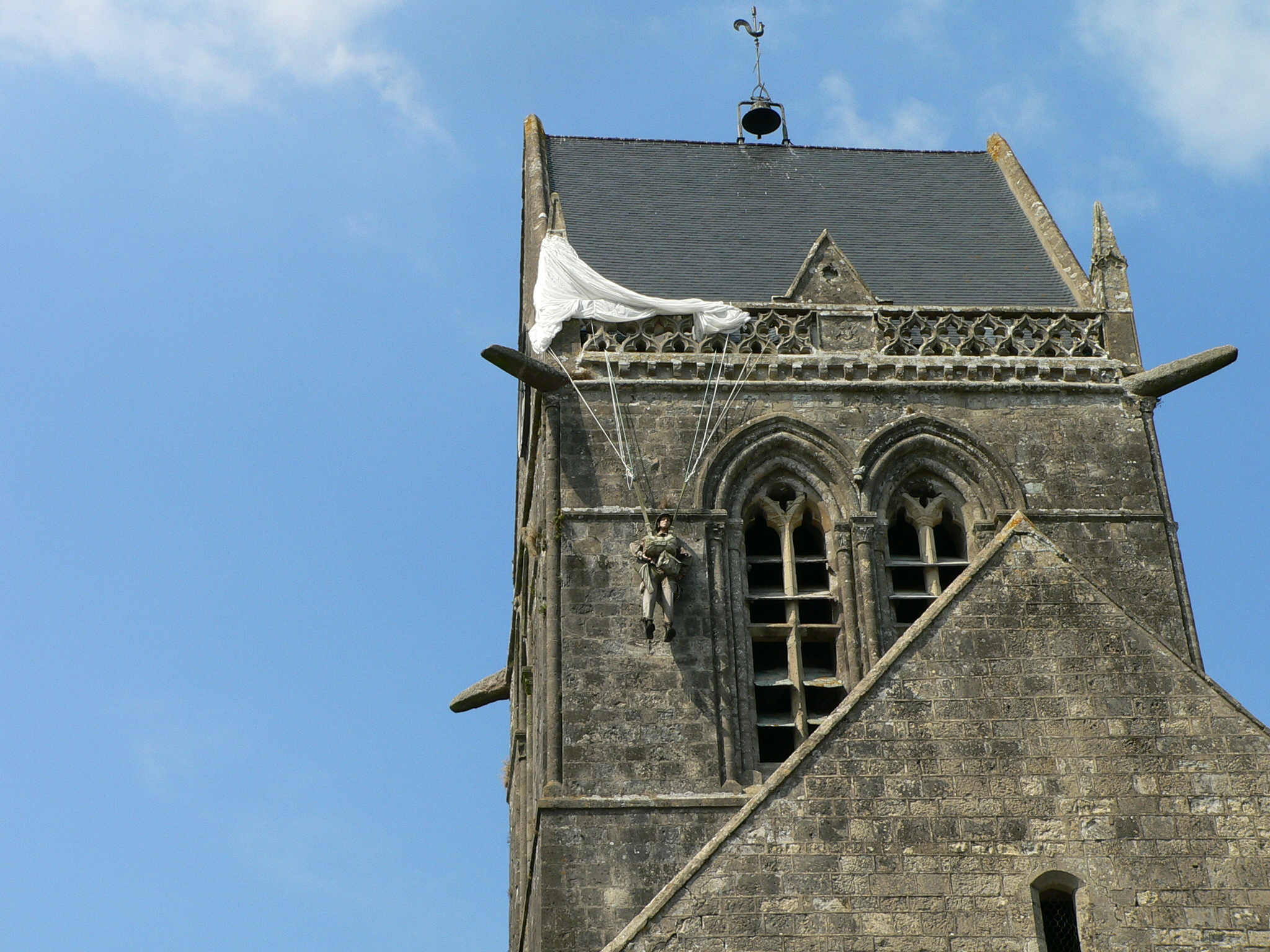 belltower of the church of Saint-Mère-Église, Normandy, France